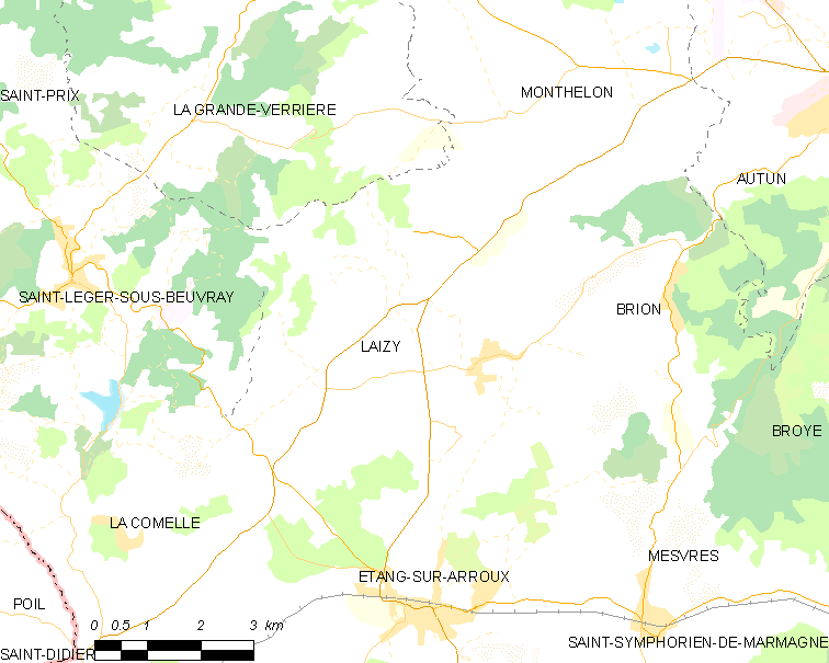 Map of French municipality